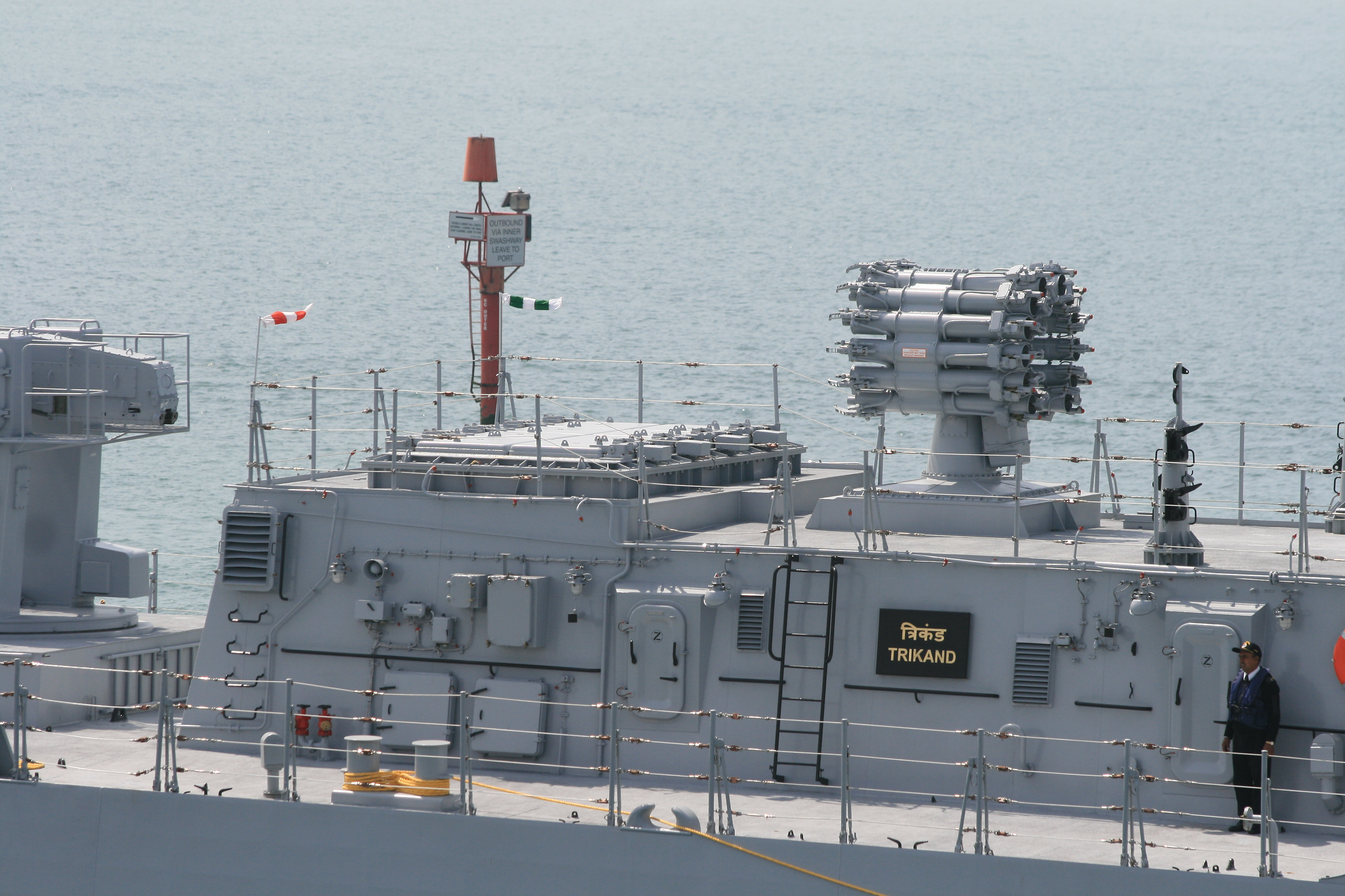 Indian Navy frigate INS Trikand (F51) of the Talwar class (modified Russian Krivak II class) departing from Portsmouth Naval Base, UK, on 16 July 2013, on an Indian-bound delivery voyage from the Baltiysky Zavod shipyard in St Petersburg. Ahead of the bridge are seen the 8-cell VLS (Vertical Launch System) for BrahMos and 3M-54E Klub anti-ship missiles, and the 12-barrelled RBU-6000 Smerch-2 launcher for anti-submarine rockets. Wikipedia editors are reminded that the copyright remains with the photographer, and that the terms of the Creative Commons (CC), Attribution (BY), Share Alike (SA) CC-BY-SA-3.0 that allow editors to reuse this image apply to Wikipedia editors also, as they do to other re-users of this image. Breaches of the licence terms are not only unlawful, but are also antisocial, in that breaches discourage photographers from making their images freely available to everyone without payment. Wikipedia re-users are also reminded of the license terms that derivatives of this image should not imply that the adaptation is endorsed or approved by the author or copyright holder. Neither should derivatives be presented as the creation of the author or copyright holder, while clearly stating that the adaptation is a derivative of the original. Attribution online should be in this format Brian Burnell. On the printed page, a simpler form is acceptable - example: "Image: Brian Burnell".